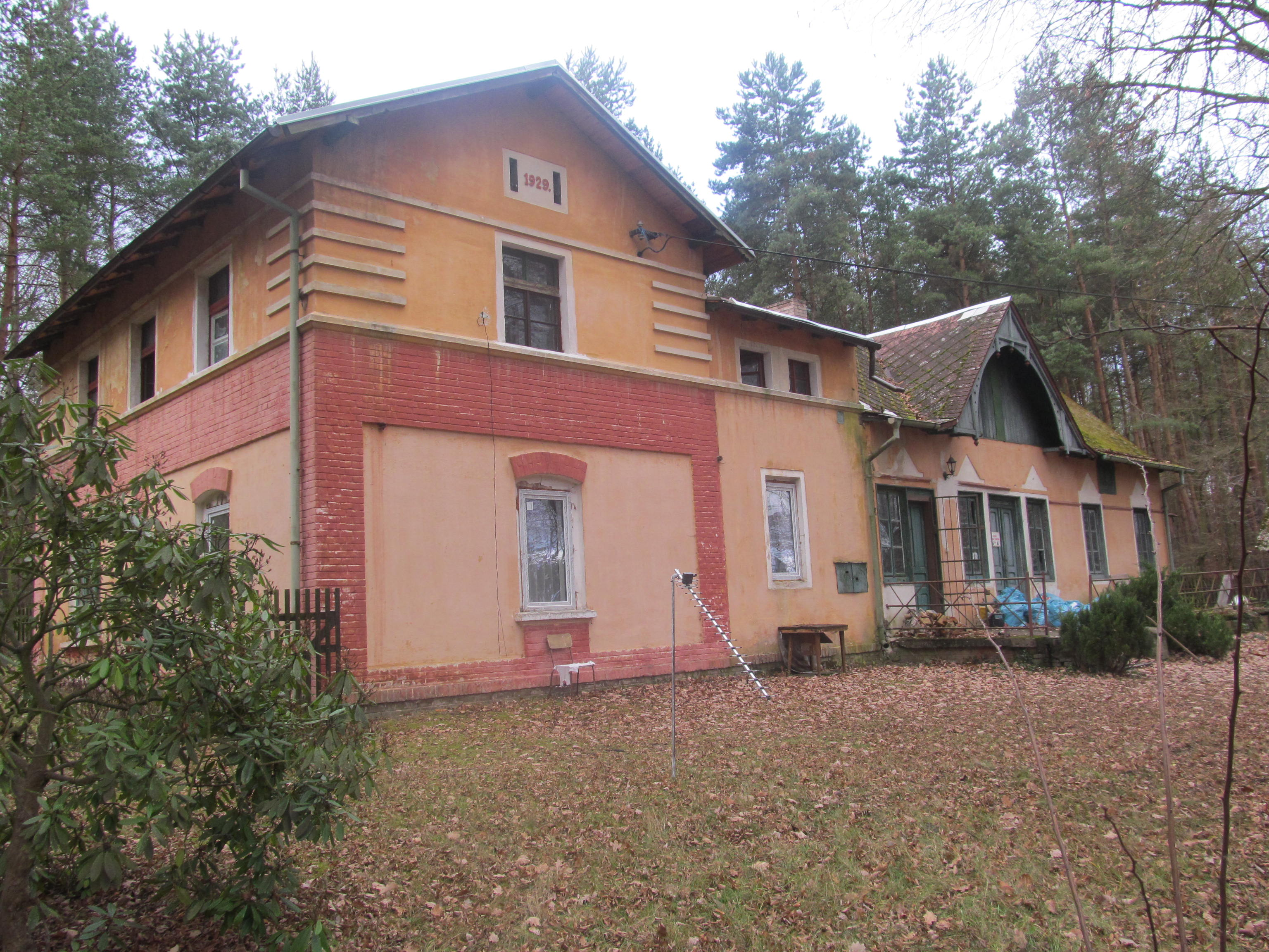 Former tourist restaurant by Sádek